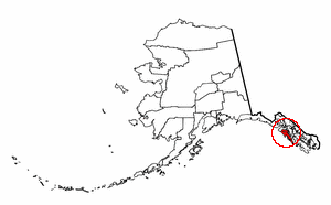 Map of Alaska highlighting Sitka City and Borough